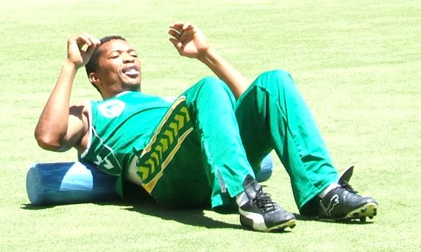 Makhaya Ntini at a training session at the Adelaide Oval